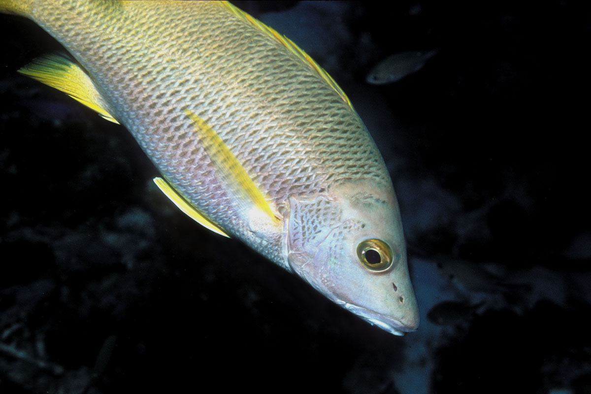 This solitary Schoolmaster (Lutjanus apodus) poses for his picture, but where's the school?